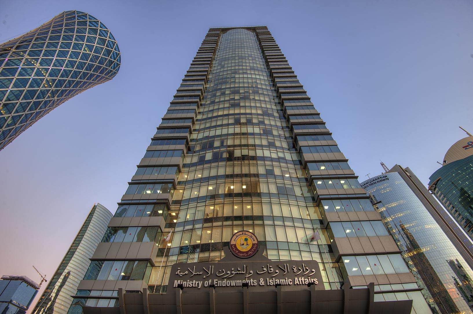 Ministry of Awqaf and Religious Affairs headquarters in Doha, Qatar.